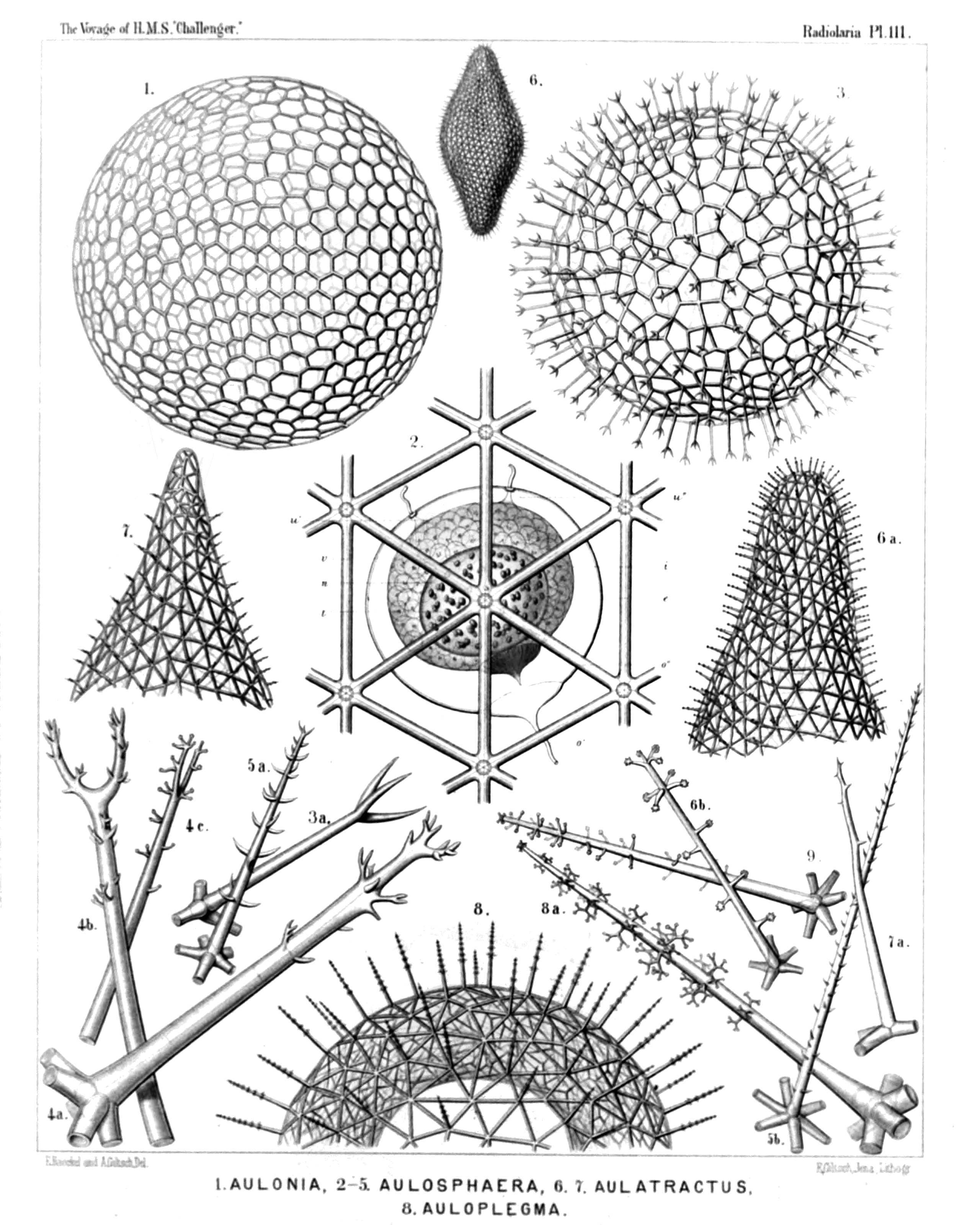 Illustration from Report on the Radiolaria collected by H.M.S. Challenger during the years 1873-1876. Part III. Original description follows: Plate 111. Aulosphærida.Diam.Fig. 1. Aulonia hexagonia, n. sp.,×30The complete spherical shell.Fig. 2. Aularia ternaria, n. sp.,×300A group of six triangular meshes, with seven nodal points of radial tubes. Behind the central capsule, with its double membrane (e, outer; i, inner) and radiate operculum (o); u, the two outer parapylæ; v, vacuoles in the protoplasm. The ellipsoidal nucleus (n) contains numerous nucleoli (l).Fig. 3. Aulastrum triceros, n. sp.,×50The complete shell.Fig. 3a. Aulastrum triceros, n. sp.,×300A single radial tube.Figs. 4a, 4b, 4c. Aulastrum dendroceros, n. sp.,×400Three single radial spines (taken from three different specimens).Fig. 5a. Aulophacus lenticularis, n. sp.,×300A single radial spine.Fig. 5b. Aulophacus amphidiscus, n. sp.,×300A single radial spine.Fig. 6. Aulatractus fusiformis, n. sp.,×5The complete shell, five times enlarged.Fig. 6a. Aulatractus fusiformis, n. sp.,×20Apical part of the shell.Fig. 6b. Aulatractus fusiformis, n. sp.,×400A single radial tube.Fig. 7. Aulatractus diploconus, n. sp.,×20Apical part of the shell.Fig. 7a. Aulatractus diploconus, n. sp.,×400A single radial tube.Fig. 8. Auloplegma perplexum, n. sp.,×50Half the shell.Fig. 8a. Auloplegma perplexum, n. sp.,×400A single radial tube.Fig. 9. Auloplegma spongiosum, n. sp.,×300A single radial tube.